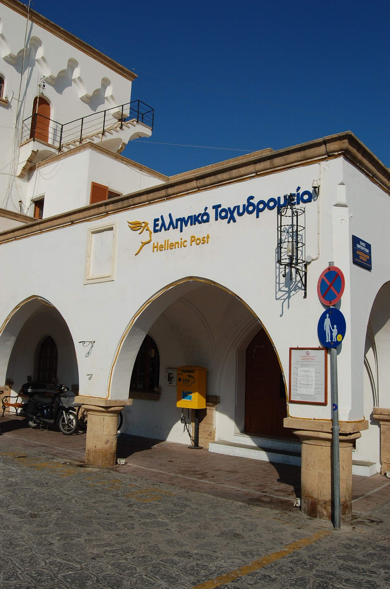 Post office in Skala, Patmos, Greece.